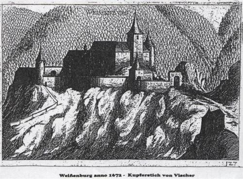 Weissenburg at Frankenfels by Georg Matthäus Vischer 1672